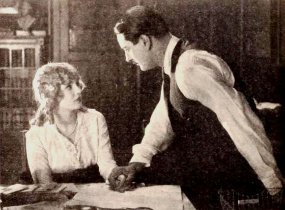 Still from the American comedy drama film Powers That Prey (1918) with Mary Miles Minter and Allan Forrest, on page 24 of the March 9, 1918 Exhibitors Herald.